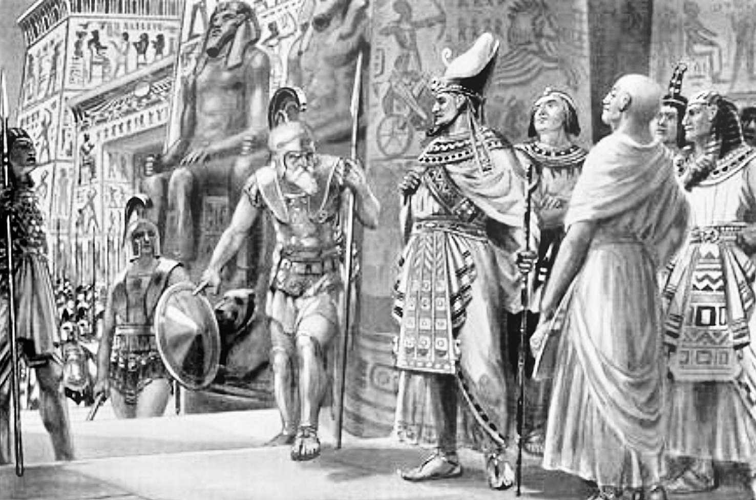 Agesilas in Egypt 361 BCE